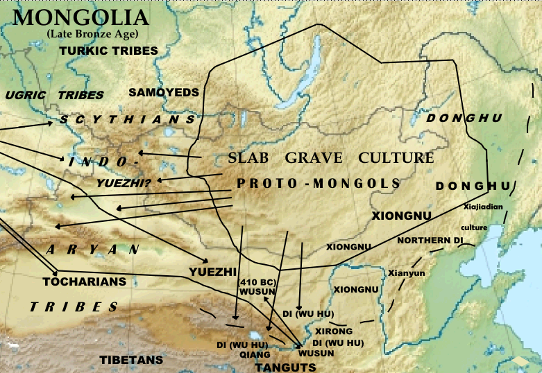 based on File:Asia laea relief location map.jpg. Data source: "History of Mongolia" (2003)